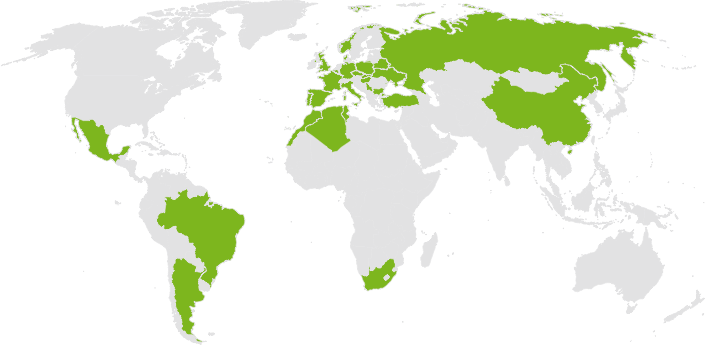 Cetelem in the world